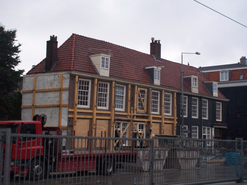 Vijzelgracht, Amsterdam, Netherlands, sept. 2008. These old monumental houses subsided due the builing of the Amsterdam Metro (underground). The soil, consisting mainly of bog, was very weak and the retaining wall was leaking.